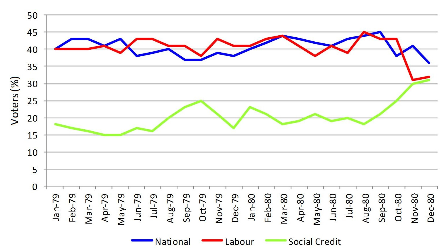 New Zealand election polling 1979-80 sourced from Crusade: Social Credit’s drive for power by Spiro Zavos (1981, INL Print, Lower Hutt) ISBN 0-86464-025-0